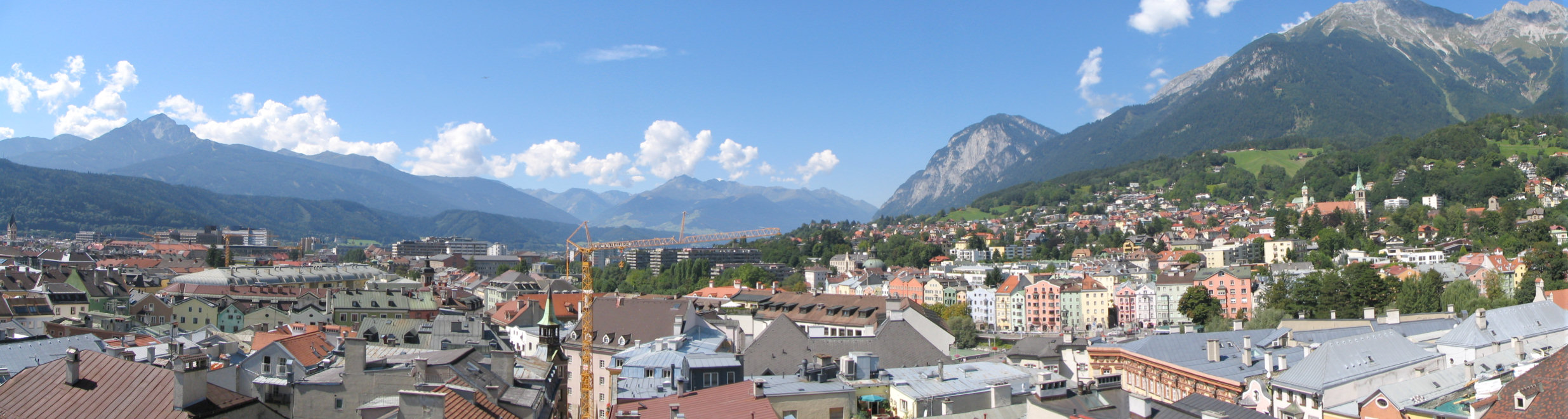 Panorama of Innsbruck/Austria from Rathausturm. Mountains from left to right: Subaier Alpen: Jochkreuz, Nederjoch, Saile (Nockspitze), Hoadl, Axamer Kögele, Freihut, Mutenkogel, Roßkogel, Brechten. Karwendel: Hechenberg (Kirchberger Köpfl), Vordere Brandjochspitze, Frau Hitt Source: taken by Pahu Capture date: August 2005